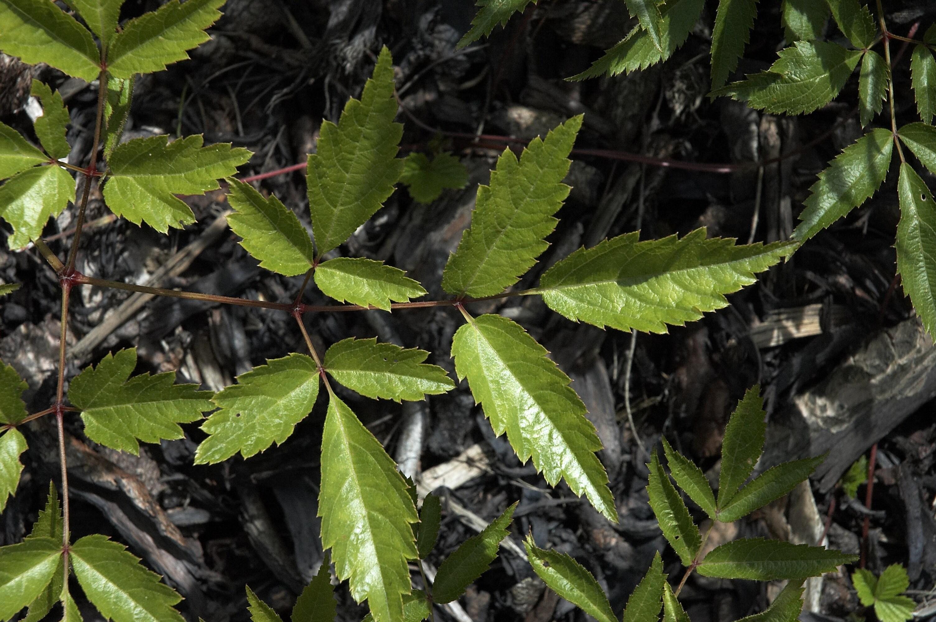 Astilbe Japonica 'Deutschland'. Picture taken in Belgium. Other photos of the same plant